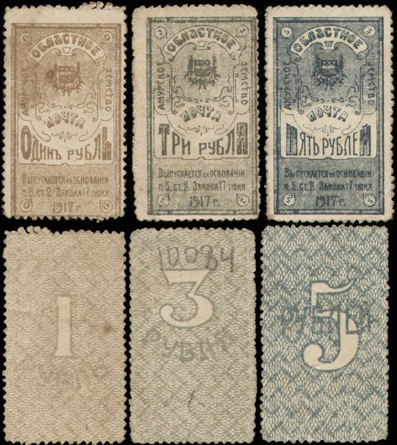 Stamp money of the Amur regional zemstvo, 1919